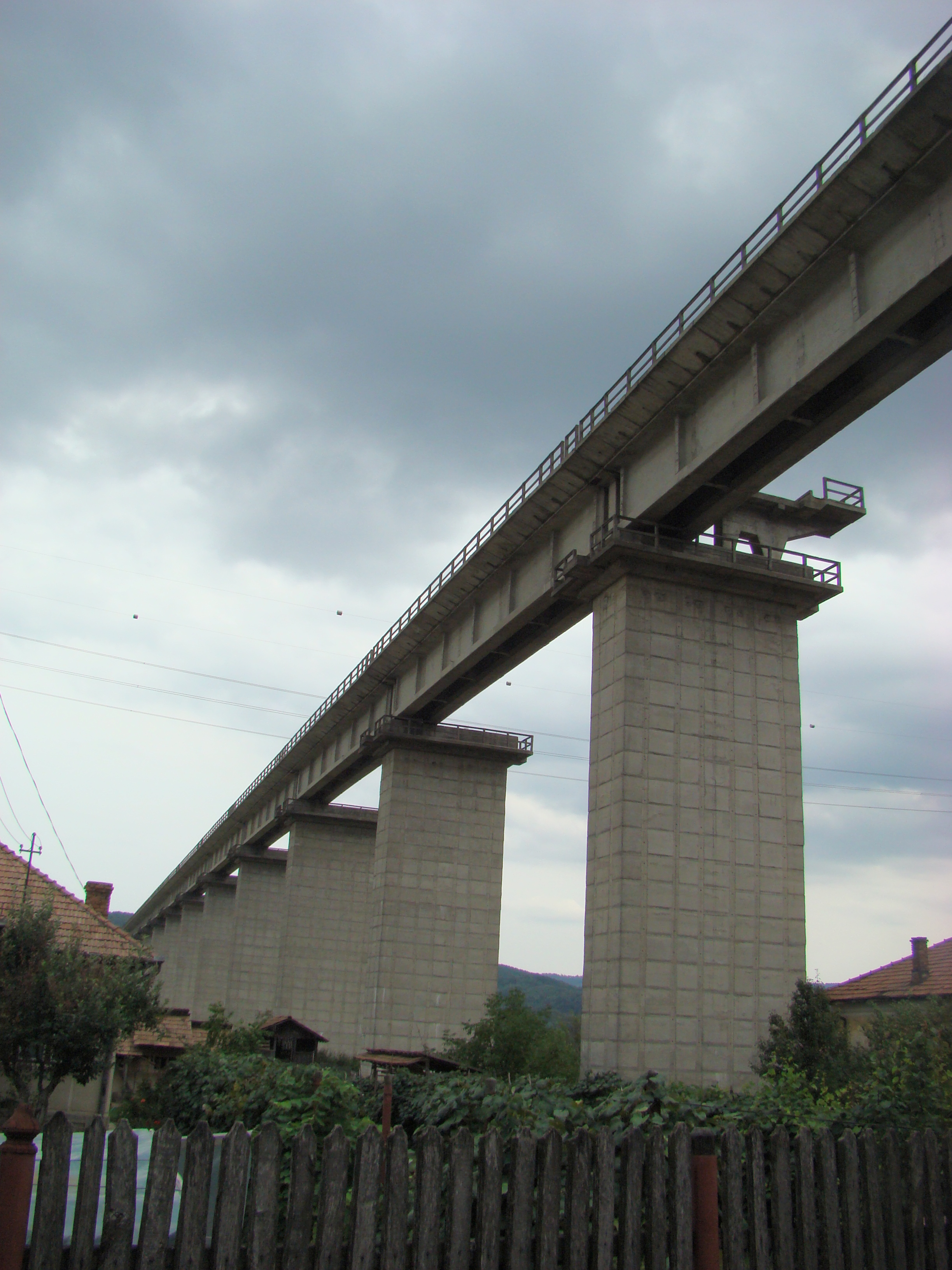 Ciofrângeni, Argeș county, Romania